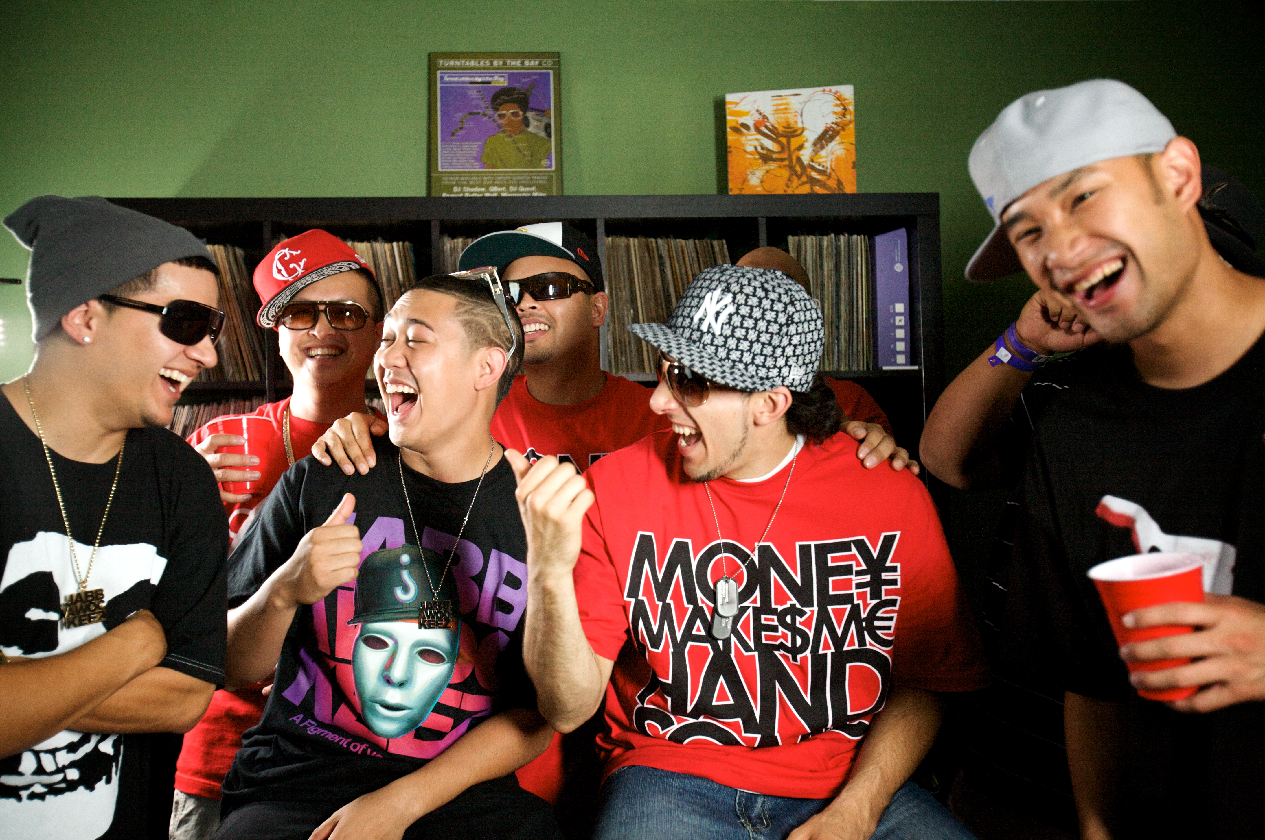 Jabbawockeez hip-hop dance crew and the Fingerbangerz, a group of DJs who produce the music for all of their performances. Photo by Mark J. Sebastian (